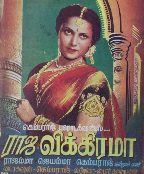 Poster for the 1950 South Indian Tamil film Raja Vikrama